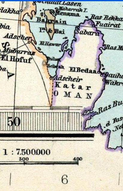 Qatar in "Iran and Turan Map by Adolf Stieler map 1891"